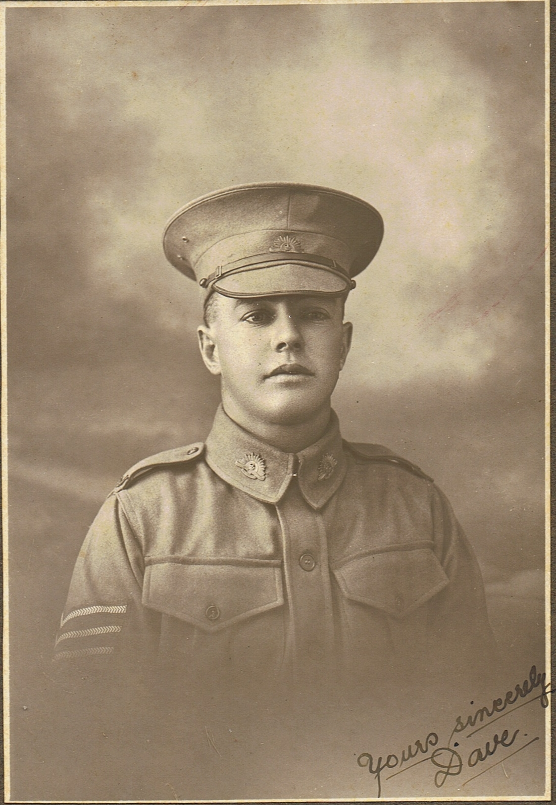 David Alexander Murphy Born 03-09-1894 d 26-09-1917 Polygon Wood Belgium - signed photo